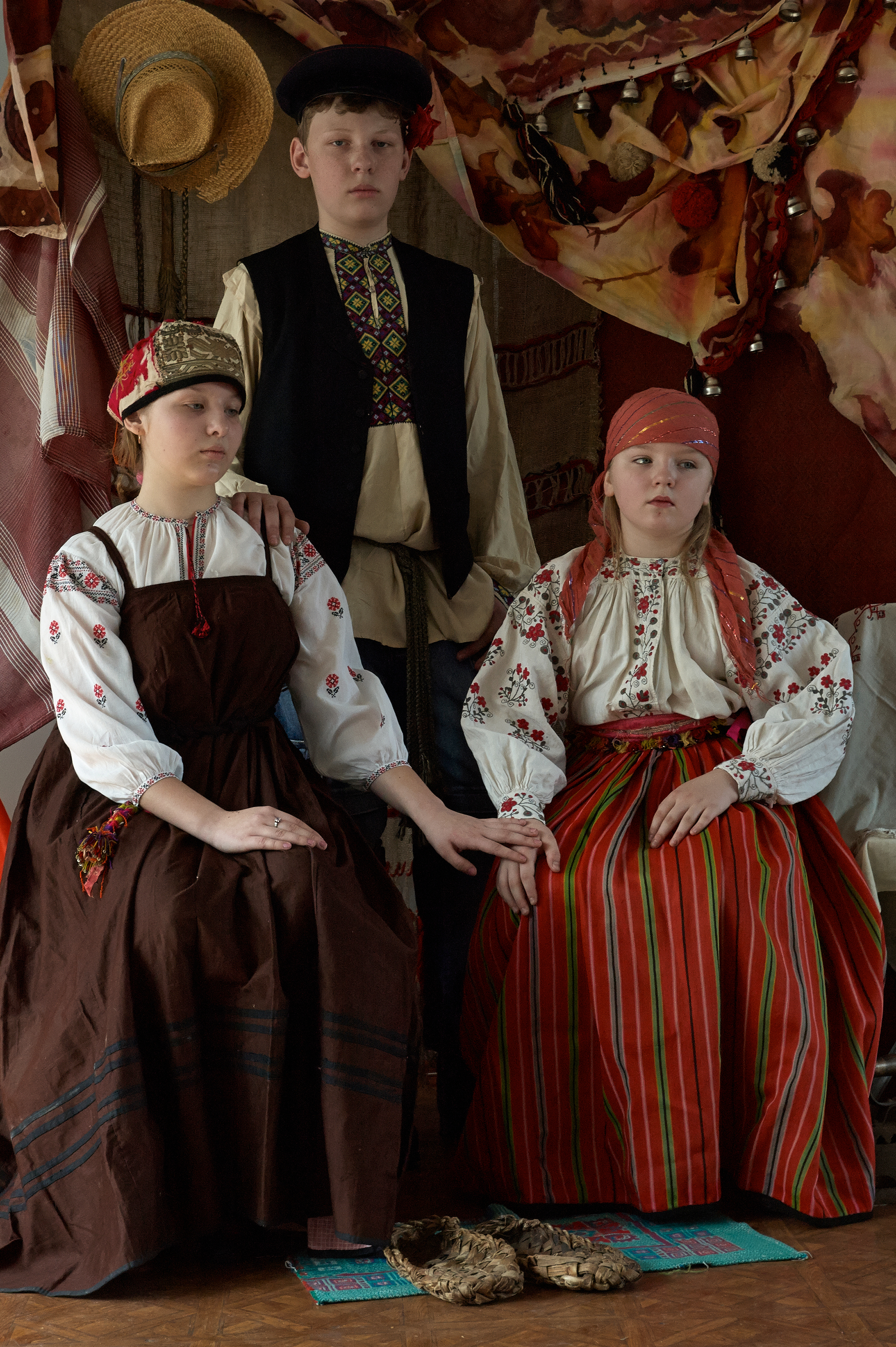 Children’s, old, russian national costumes.